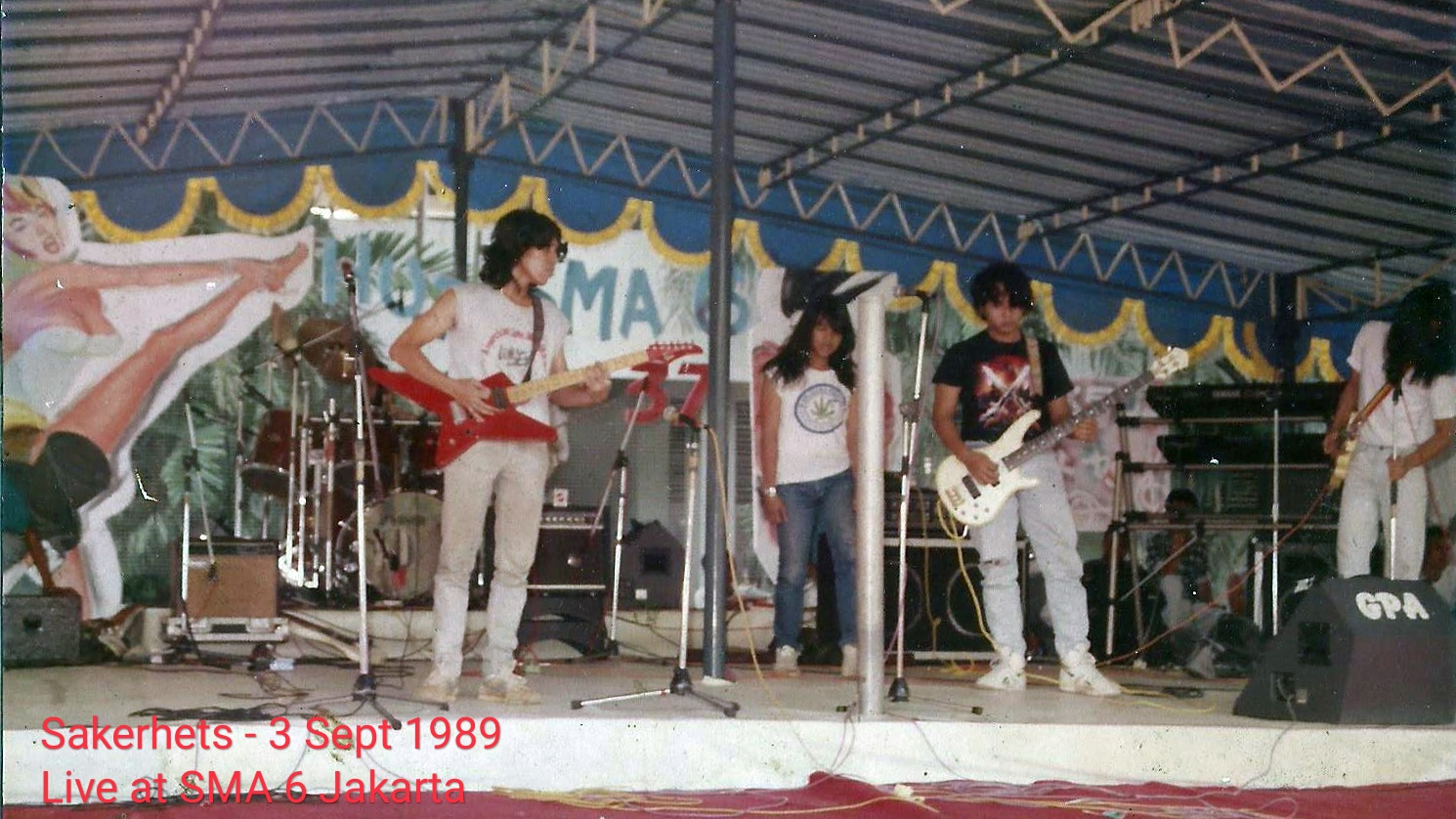 Sakerhets 1989